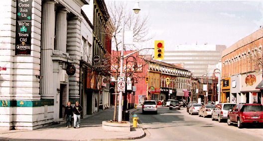 Taken by User:Trappy, June 2006. This is the corner of St. Paul and Queen streets in Downtown St. Catharines, Ontario. I personally took this photo, I release it to the public.